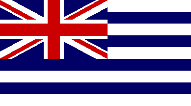 A proposed New Zealand flag, from March 1834. Created from Blue Ensign image.